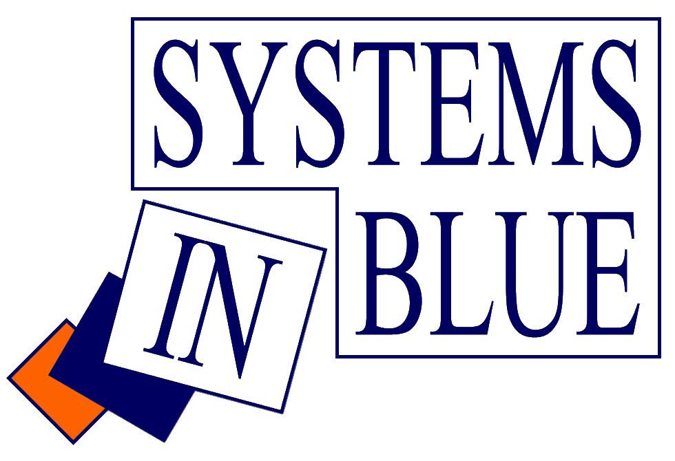 Logo of Systems in Blue.